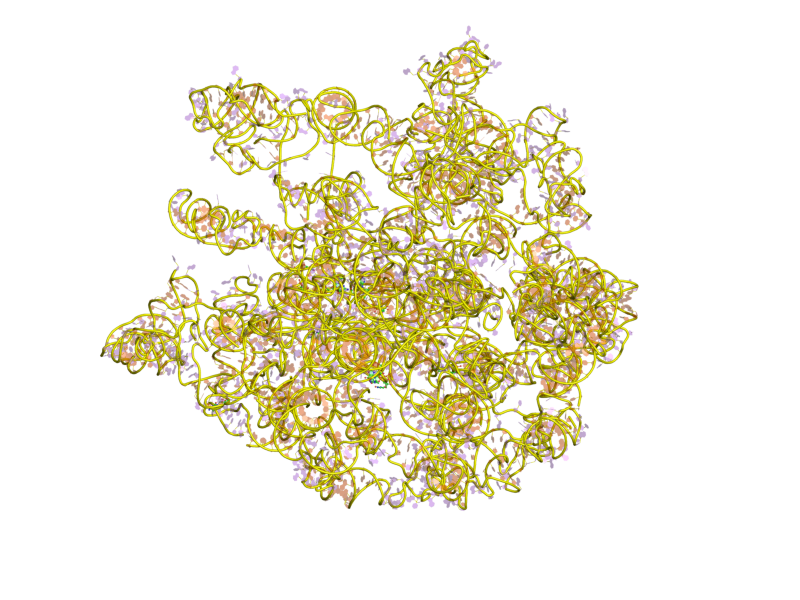 Cartoon representation of the molecular structure of protein registered with 1c2w code.